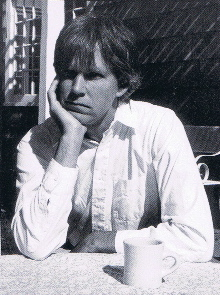 Pohot of Kevin Teare